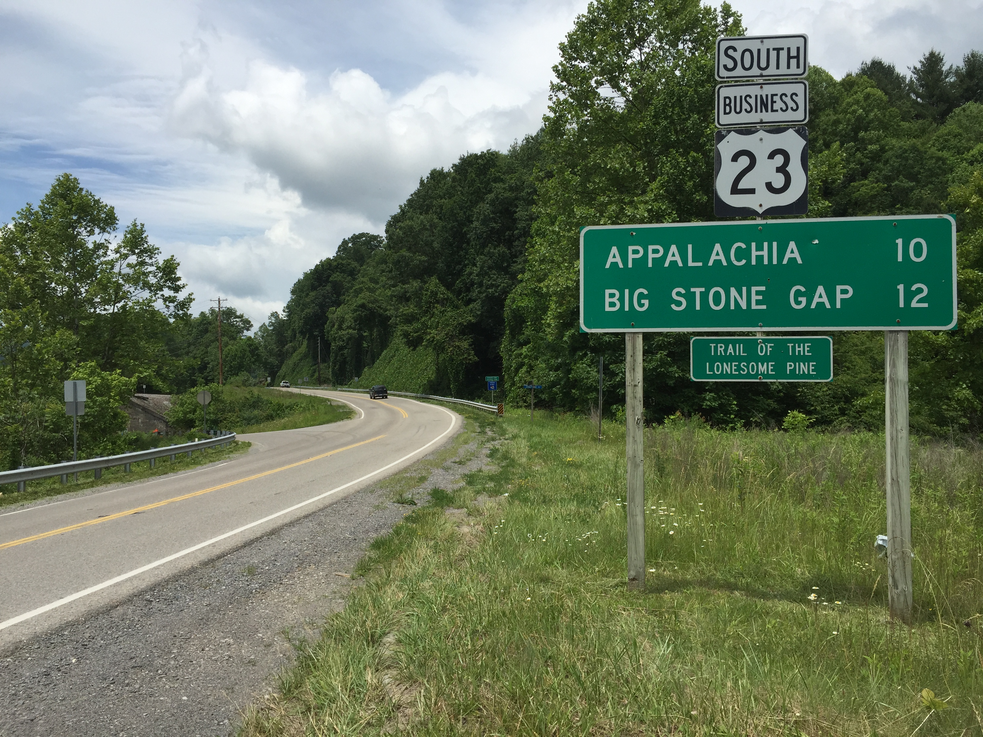 View south along U.S. Route 23 Business (Kent Junction Road) at Josephine Road (Virginia State Secondary Route 610) in Josephine, Wise County, Virginia